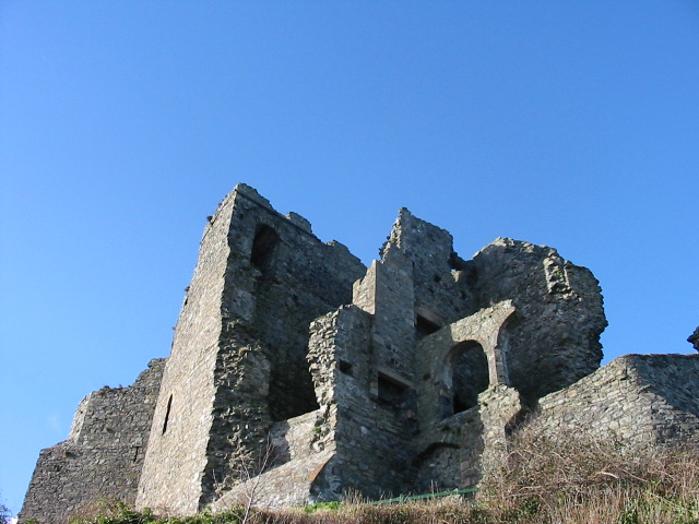 King John's Castle - Carlingford, Co. Louth, Ireland. This closes up view showing some of the repaires made by the OPW was taken by Colm Rice on Sunday 25 July 2004. With permission